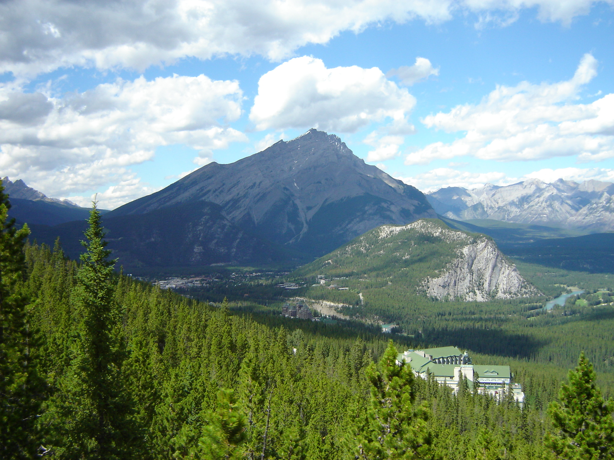 Cascade Mountain, town of Banff, Tunnel Mountain, Fairmont Banff Springs Hotel, Bow River, and Rimrock Resort Hotel, viewed from the Banff Gondola on Sulphur Mountain, Banff National Park